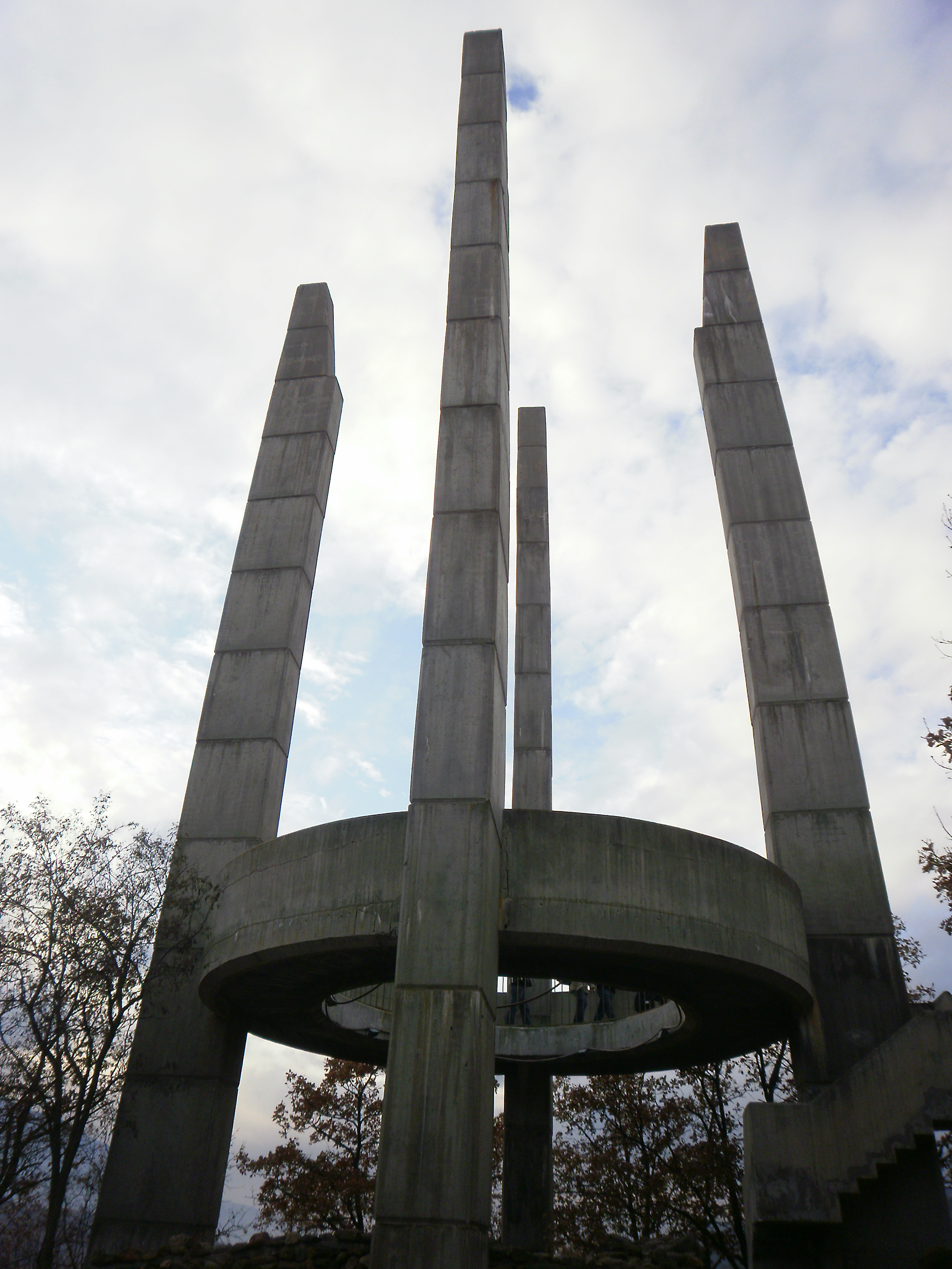 Samouil's fortress, Bulgaria.